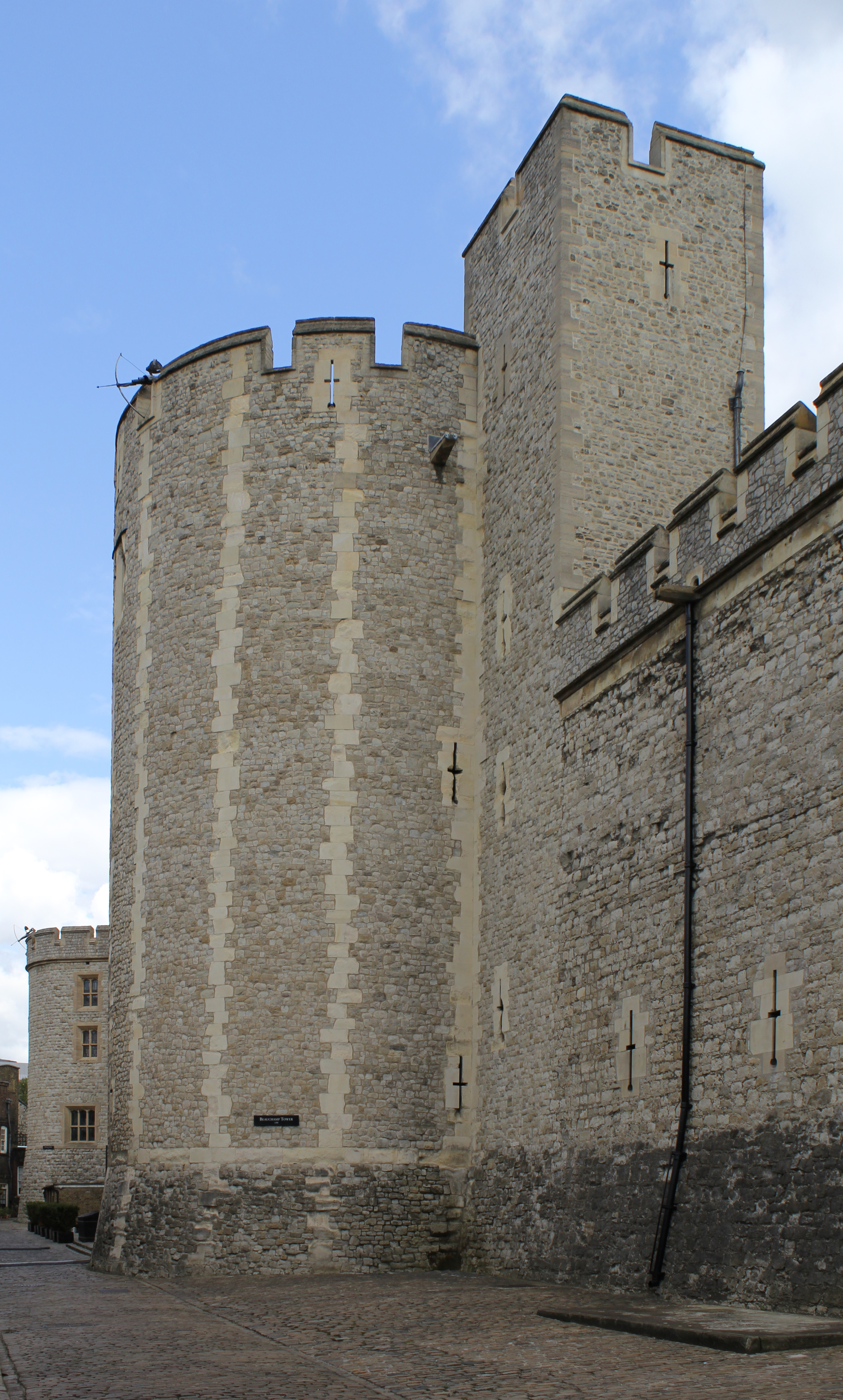 The Beauchamp Tower seen from the south west Wikidata has entry Q17645576 with data related to this monument.